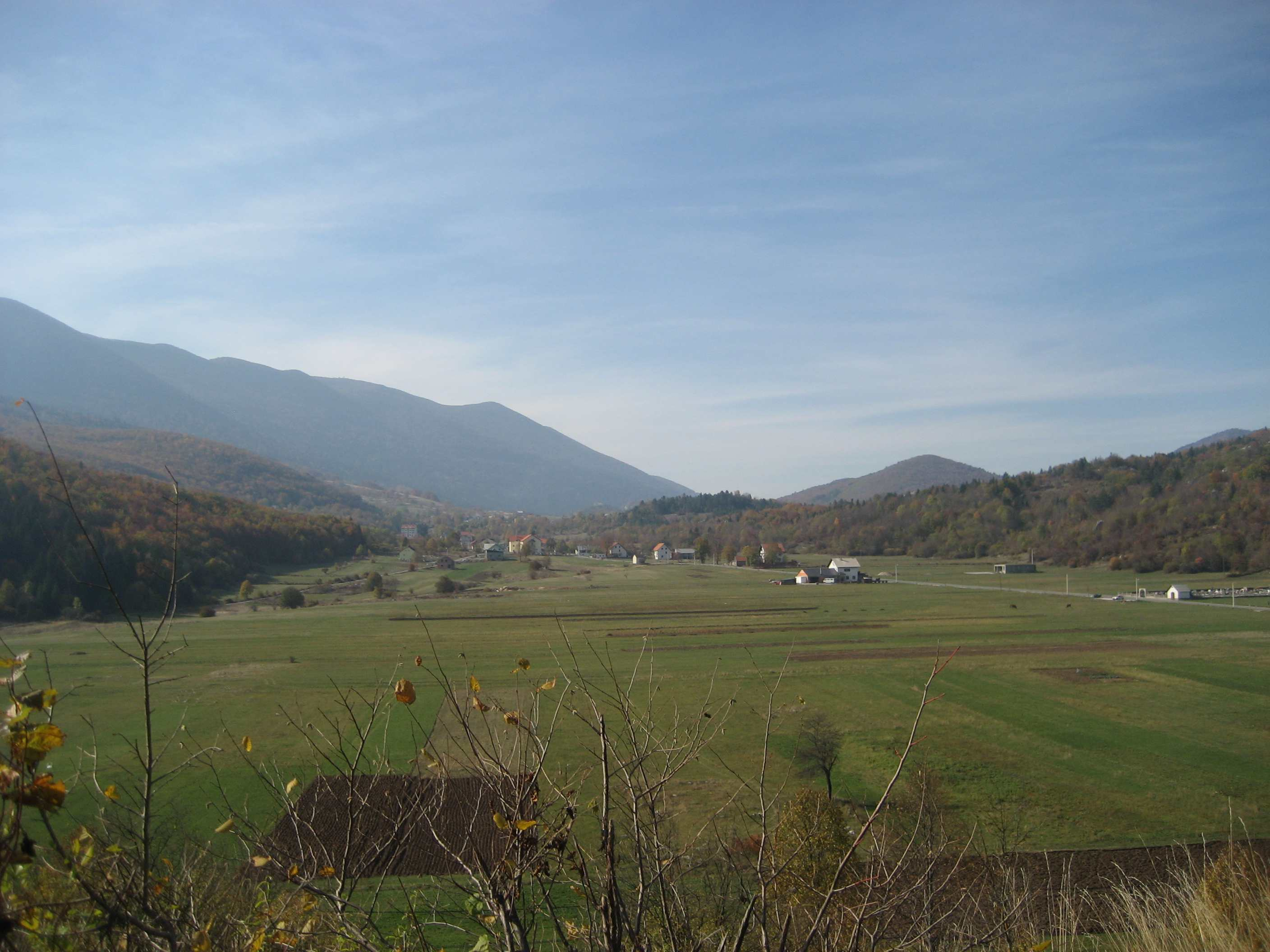 Landscape in Krasno Polje, Croatia